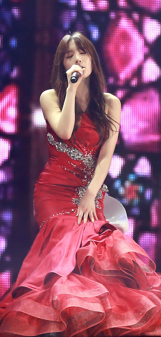 Taeyeon performed at the SMWeek Concert on December 22, 2013.